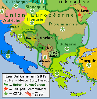 Historic map of the Balkan peninsula, 2010